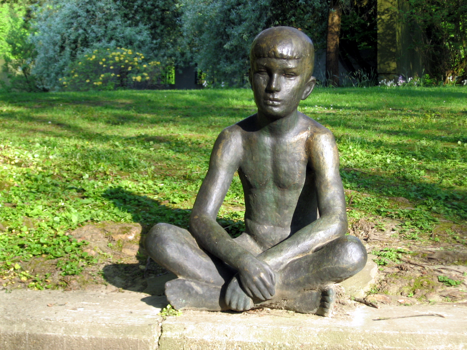 Sculpture Hockender Knabe (1930?) by Robert Ittermann in the Grugapark Essen/Germany